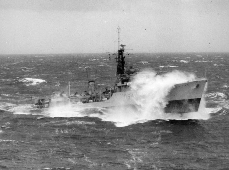 HMS SCORPION, Weapon Class destroyer, lifts her nose out of the water while operating in heavy Northern waters during Exercise Mariner, September 1953 (IWM A 32750)